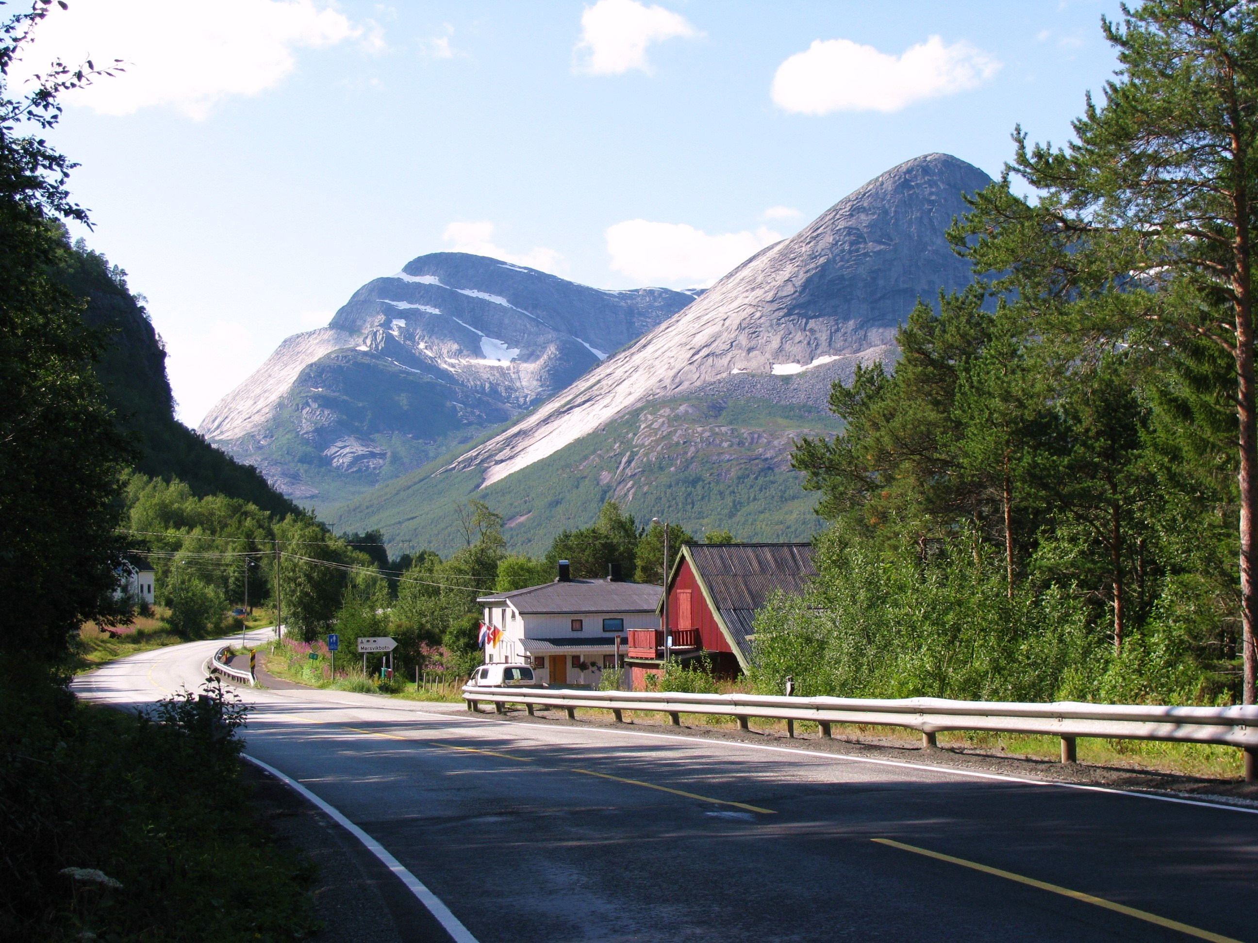 Mørsvikbotn village in Sørfold municipality, Nordland county, Norway. This village is located at the head of the innermost part of the fjord (Folda), 150 km north of the Arctic Circle, surrounded by forest and mountains. The road is E6, view towards south.